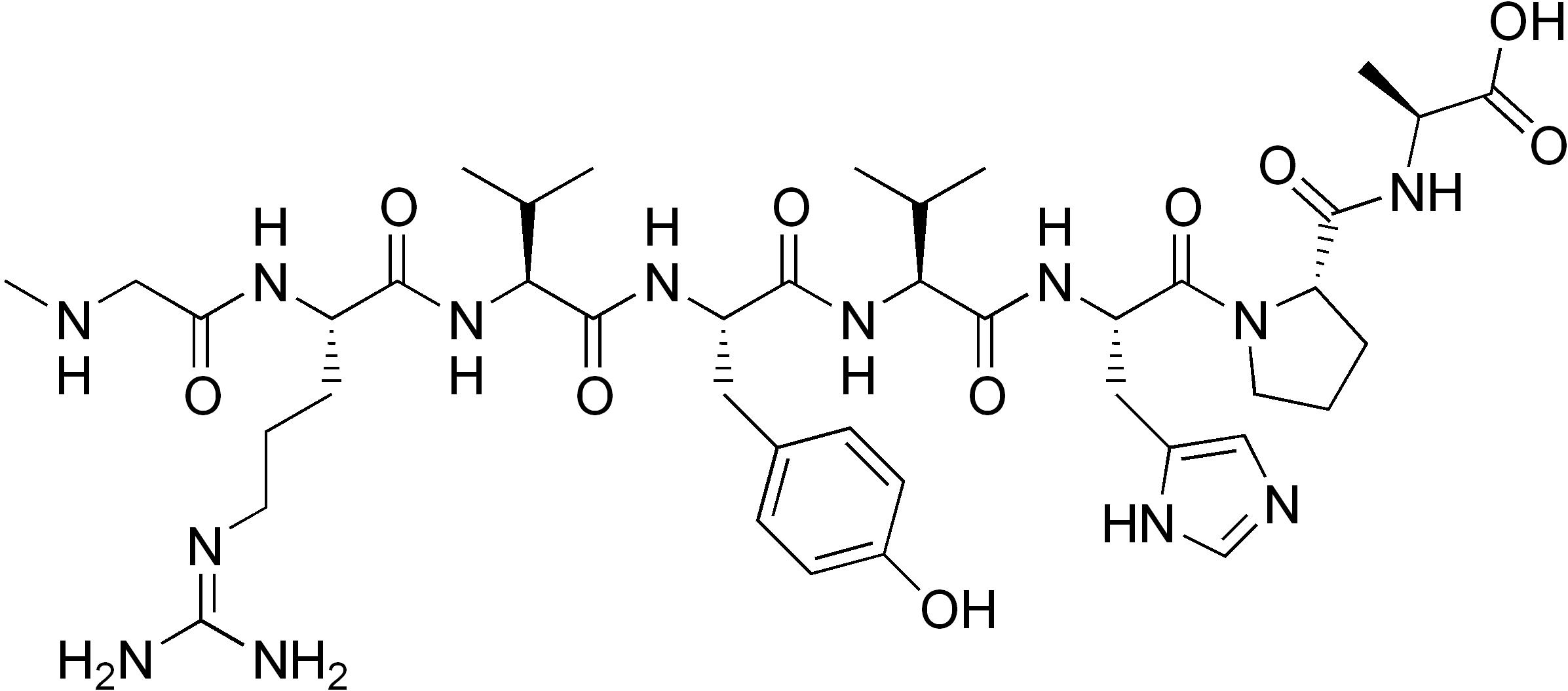 chemical structure of saralasin